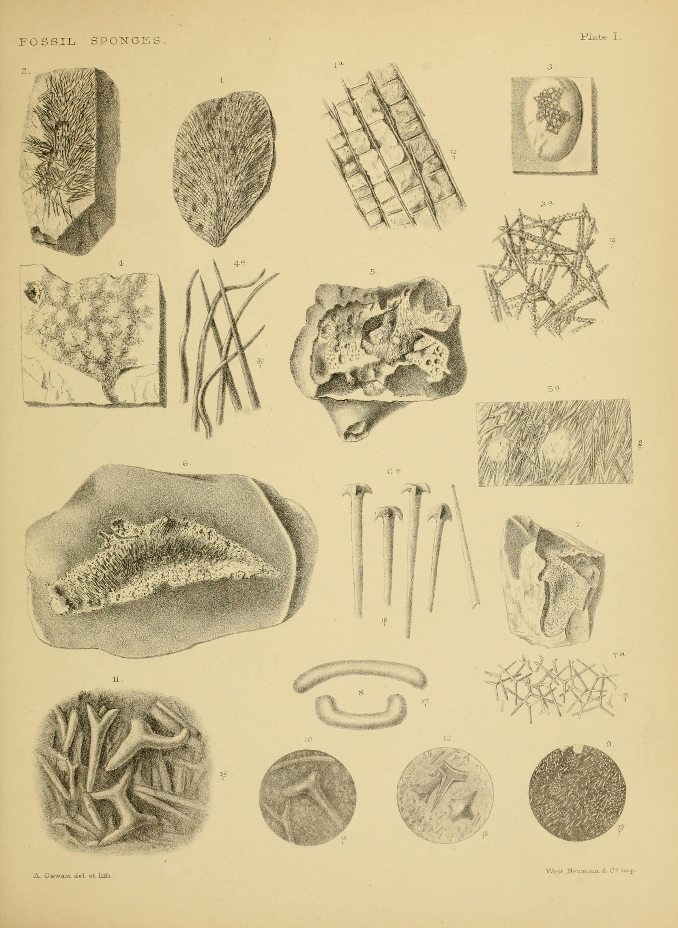 Catalogue of the fossil sponges in the Geological Department of the British Museum (Natural History). With descriptions of new and little-known species. (Illustrated by 38 lithographic plates.) ByGeorge Jennings Hinde ...